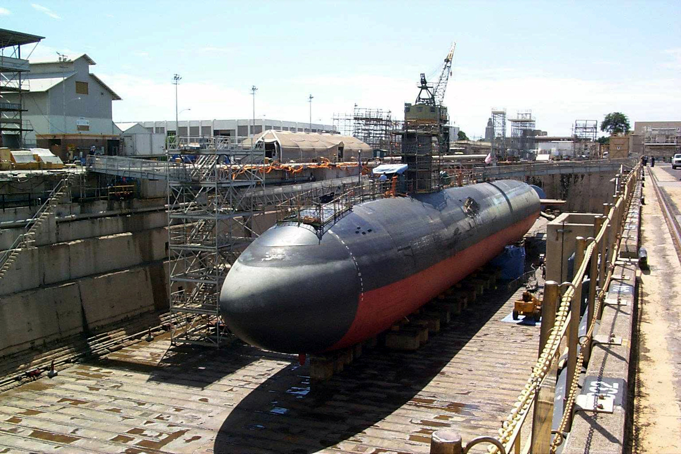 The USS Greeneville (SSN 772) sits atop blocks in Dry Dock #1 at the Pearl Harbor Naval Shipyard and Intermediate Maintenance Facility, Pearl Harbor, Hawaii, on Feb. 21, 2001. The Los Angeles class attack submarine is dry-docked to assess the damage and perform necessary repairs following a Feb. 9 collision at sea with the Japanese fishing vessel Ehime Maru off the coast of Honolulu, Hawaii.